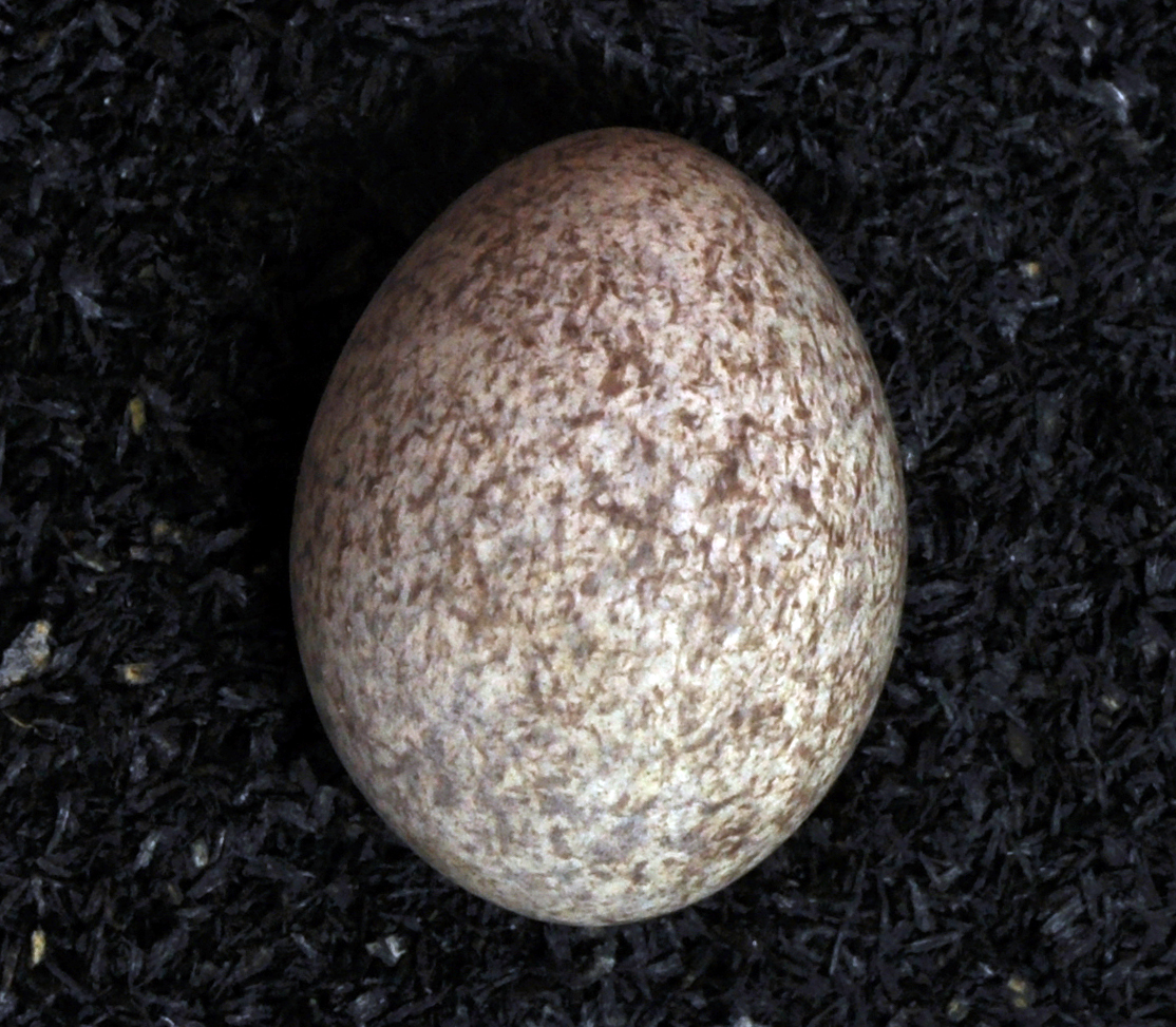 Water pipit Anthus spinoletta , egg, Coll. Museum Wiesbaden